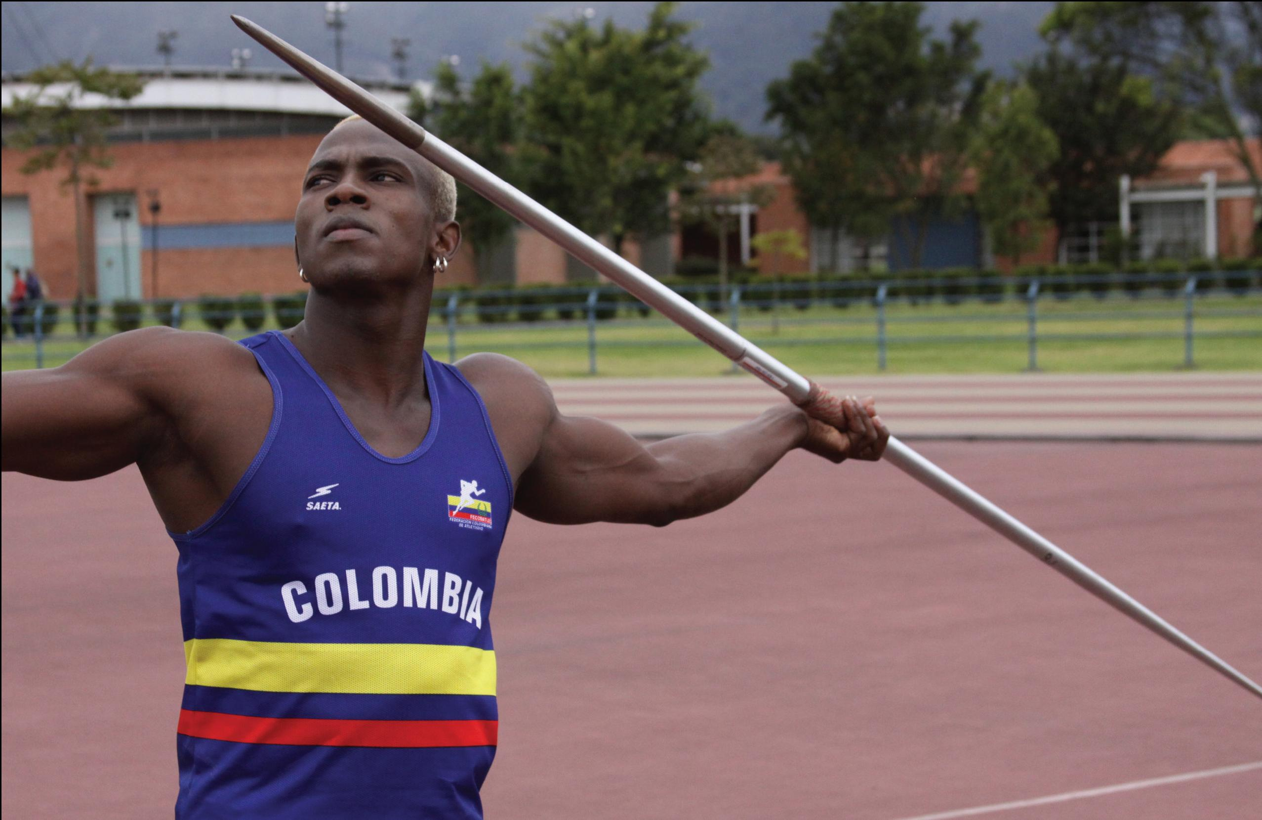 Javelin throw. Colombian athlet throwing a javelin